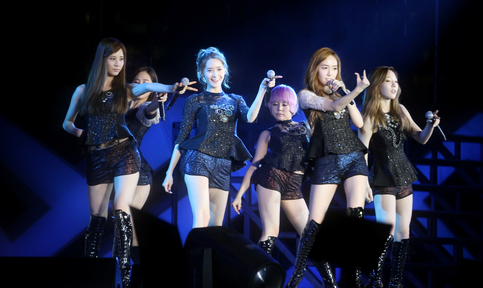 Girls' Generation performing "Genie" at SMTown Live In Singapore